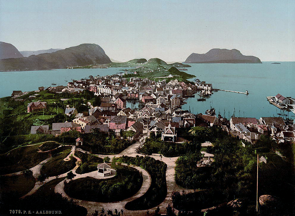 [General view, Ålesund, Norway] [between ca. 1890 and ca. 1900]. 1 photomechanical print : photochrom, color. Notes: Title from the Detroit Publishing Co., Catalogue J--foreign section. Detroit, Mich. : Detroit Publishing Company, 1905. Print no. 7079. Forms part of: Landscape and marine views of Norway in the Photochrom print collection. Subjects: Norway--Ålesund. Format: Photochrom prints--Color--1890-1900. Repository: Library of Congress, Prints and Photographs Division, Washington, D.C. 20540 USA, Part Of: Landscape and marine views of Norway (DLC) 2001699563 More information about the Photochrom Print Collection is available at Call Number: LOT 13432, no. 001 [item]